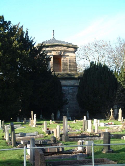 Mausoleum, Stone Road, Trentham Opposite the main gates of Trentham Gardens is the only grade I listed building in Stoke-on-Trent. It features a solid oak door at the front, a window at the rear and an upper storey with four louvred windows, one on each flank. The gloomy interior, with its Greek Cross plan, has tunnel-vaulted arms. The ashlar walls slope inwards on all sides. This mausoleum was built in 1807-8 to the design of Charles Heathcote Tatham of Trentham. In 1907 the bodies of the half-dozen members of the Leveson-Gower family (Dukes of Sutherland) laid to rest in the catacombs were removed and buried in special lead coffins elsewhere within the cemetery compound; descriptive tablets were placed above each grave.